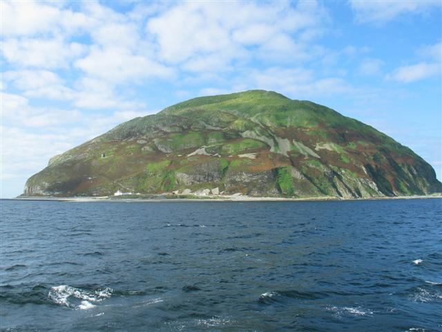 Ailsa Craig from HMS Campbeltown